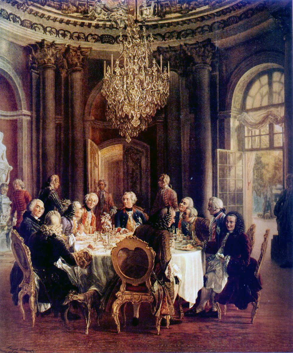 Third from the left, in the purple coat, is Voltaire; next to him in the red uniform Christoph Ludwig von Stille, then the king Frederick the Great. The other guests are Giacomo Casanova, Jean-Baptiste Boyer d'Argens, La Mettrie, the Keiths (James Francis Edward Keith & George Keith, 10th Earl Marischal), Friedrich Rudolf von Rothenburg, and Francesco Algarotti.